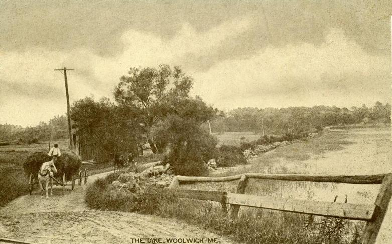 View of the dyke, Woolwich, Maine.